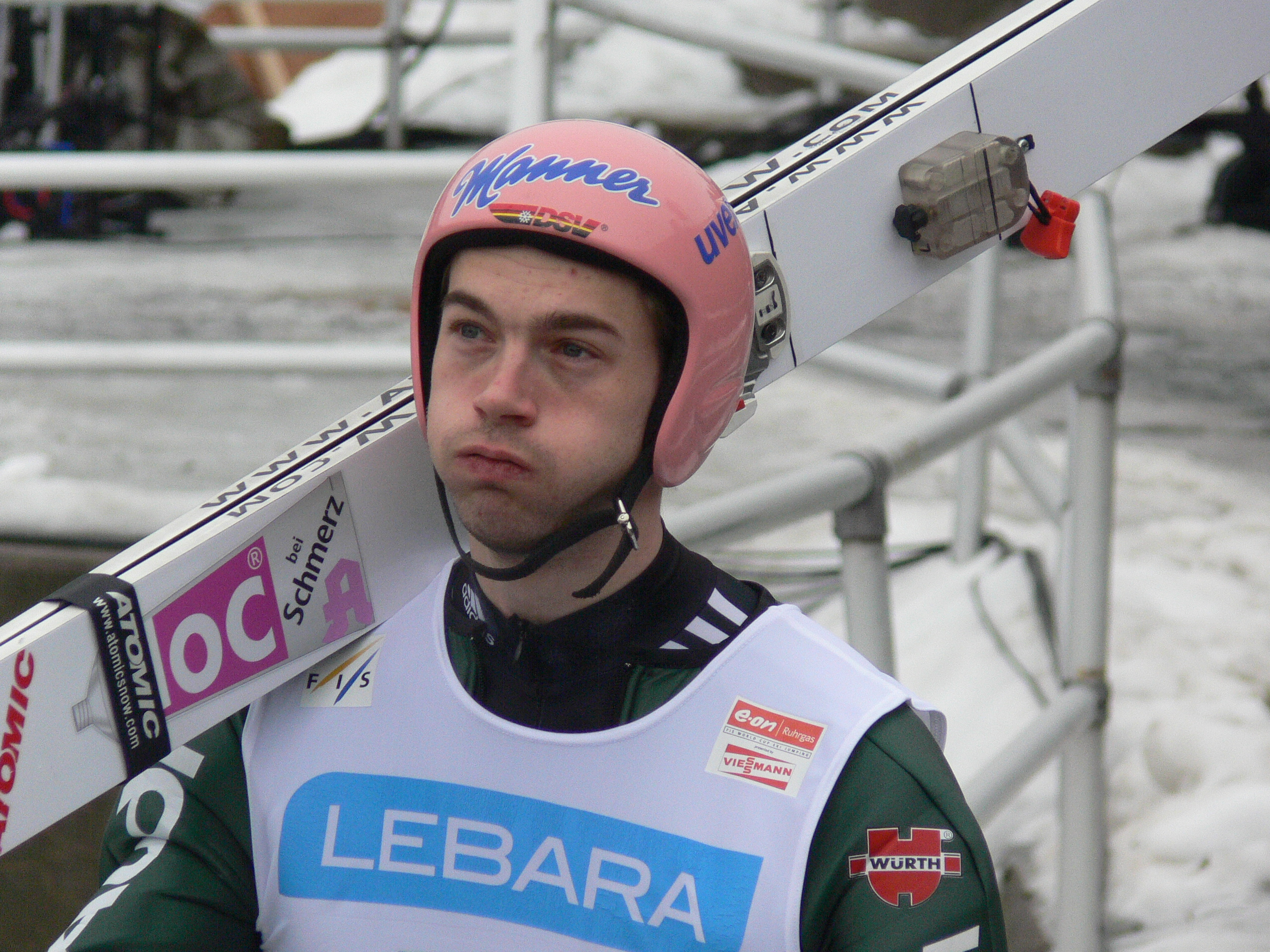 From the 2008 World Cup ski jumping event in Holmenkollen, Oslo.